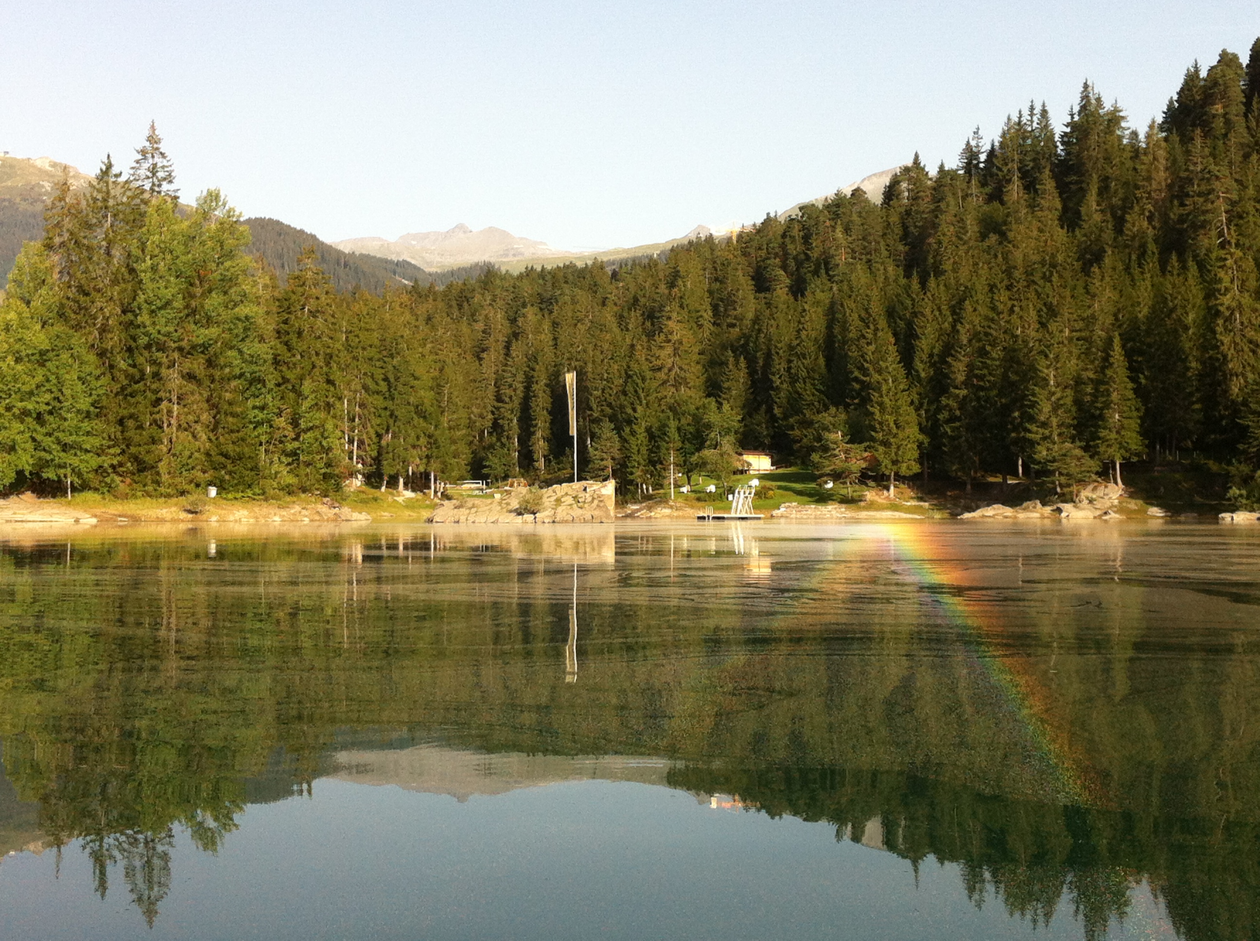 After a thunderstorm millions of small particles from the woods around form a layer on Lake Cauma that shape the lake surface three-dimensional to reflect the morning sun. On the right side you see a bright rainbow caused by the dew on the particals, while left of this bow you see a weaker bow in an angle of around 60°, showing a mirrored dew rainbow.